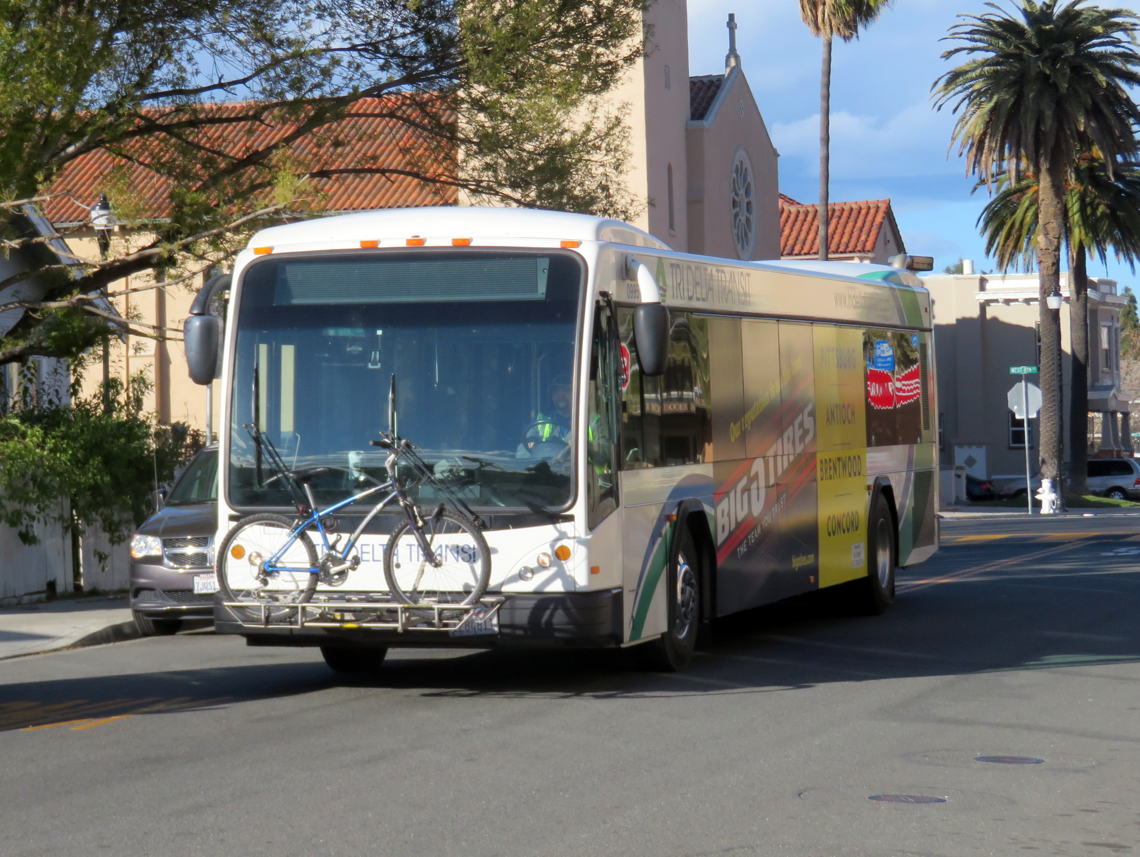 Tri Delta Transit bus is Pittsburg in February 2018